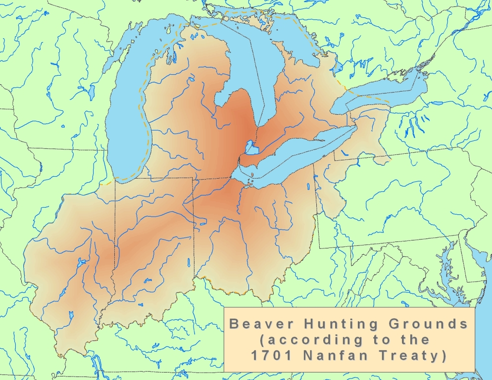 General map of the "Beaver Hunting Grounds" described in "Deed from the Five Nations to the King, of their Beaver Hunting Ground." Also known as the Nanfan Treaty of 1701. Iroquois lands, in the Great Lakes region of North America.